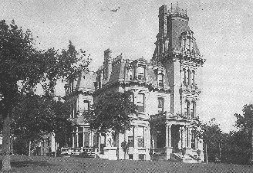 Home of Norman Kittson, at St. Paul, Minnesota. Built 1884, demolished circa 1904